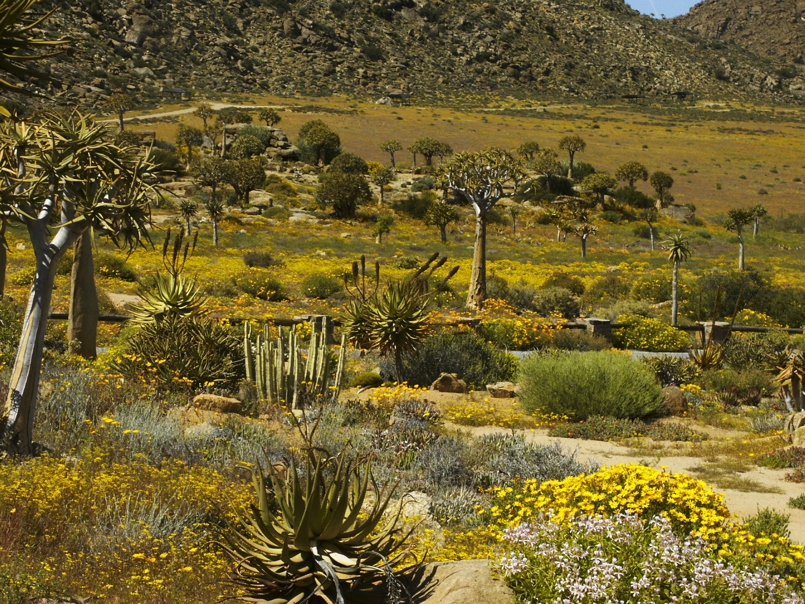 Hester Malan Wild Flower Garden, flowering Desert, Landscape Namaqualand, Goegap Nature Reserve, Northern Cape, South Africa